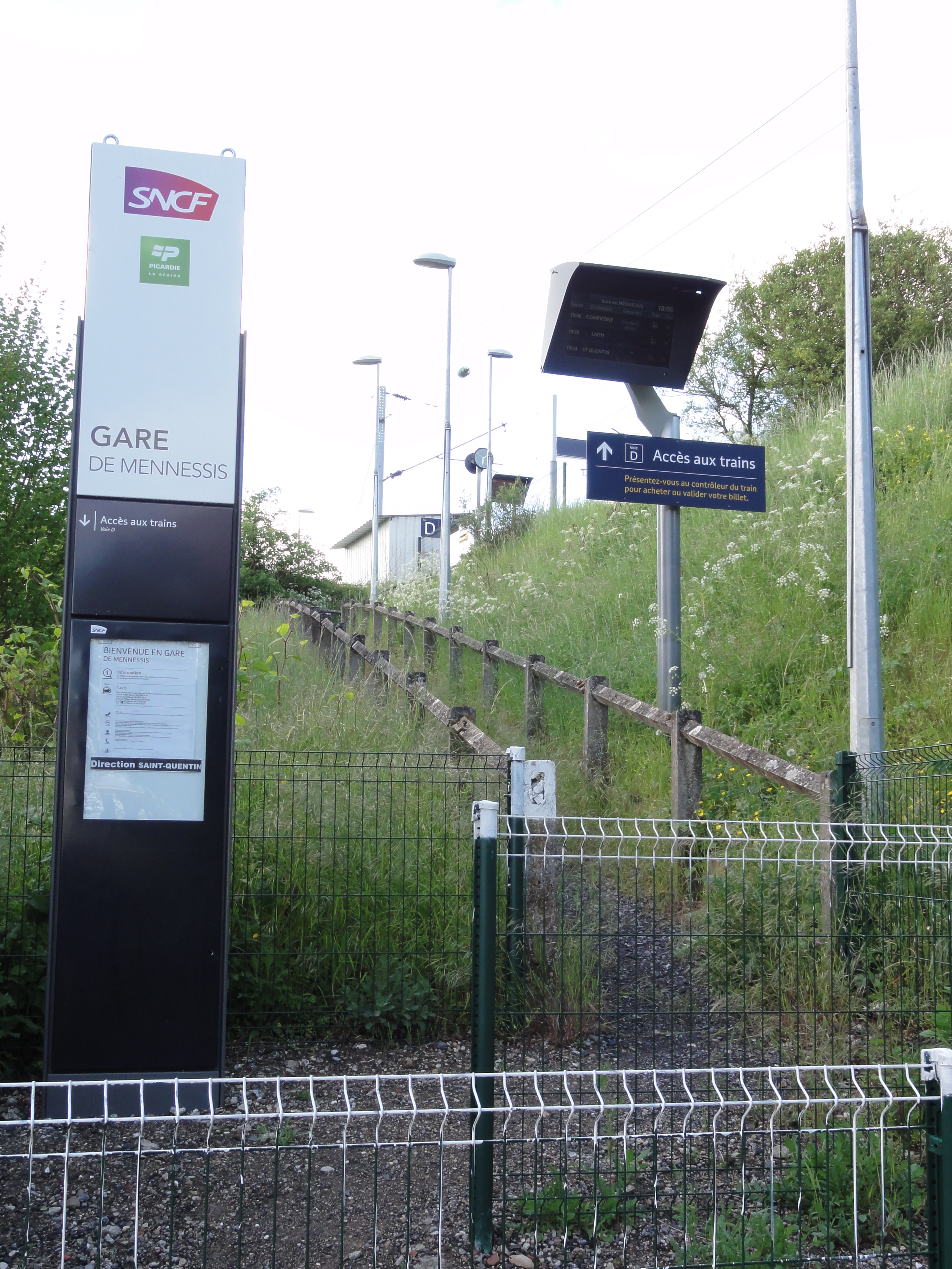 Mennessis (Aisne) la gare